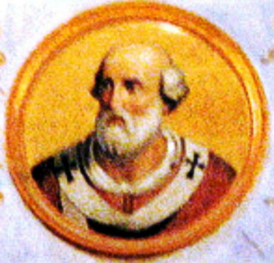 Cristoforo Antipope